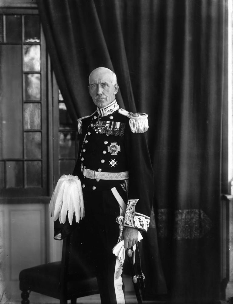 Sir John Goodwin, Governor of Queensland, Australia (1927-1932)